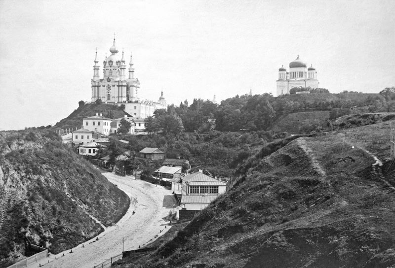 Andriyvskiy descent in 1870's, Kyiv, Ukraine